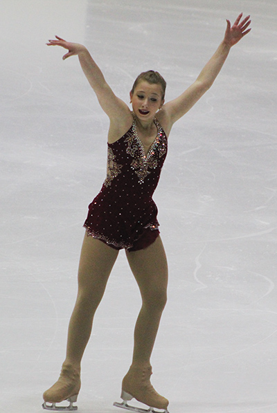 Tyler Pierce (figure skater) in 2015